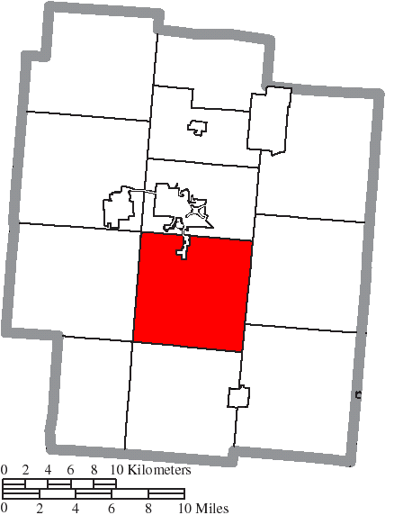 Map of the municipal and township boundaries of Jackson County, Ohio, United States, as of the 2000 census, with the location of Franklin Township highlighted. Township borders are shown only in unincorporated areas in order to differentiate incorporated and unincorporated areas more clearly.